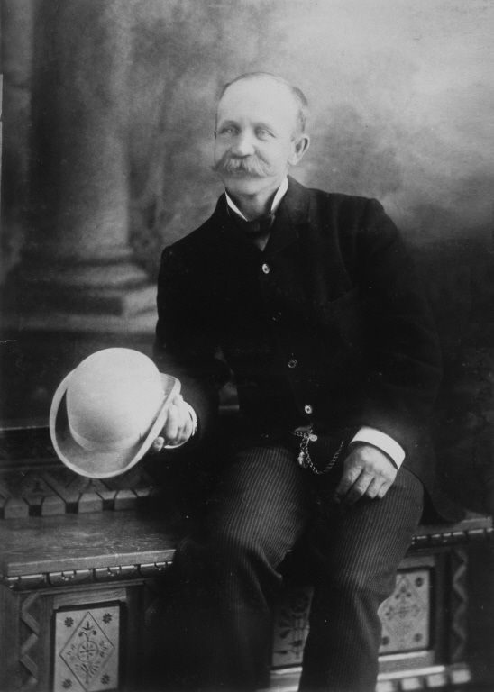 Photograph, H. J. Beemer, Montreal, QC, 1881, Silver salts on paper mounted on paper - Albumen process - 15 x 10 cm